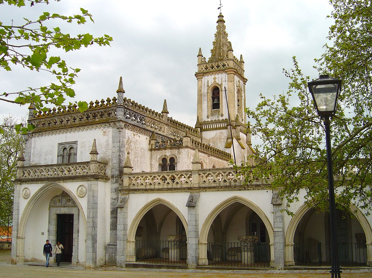 Museu Regional de Beja See where this picture was taken. [?]